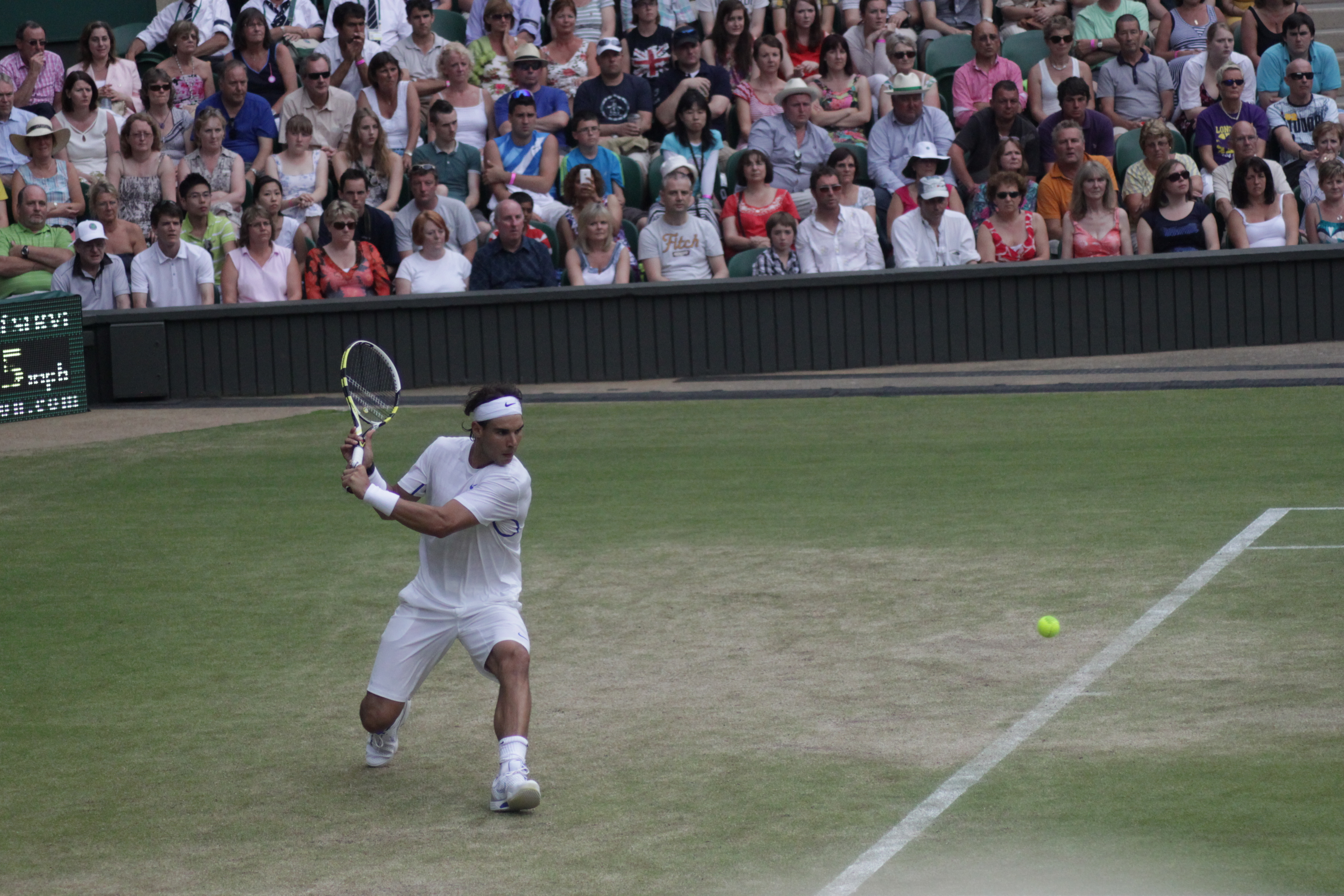 Nadal on Centre Court